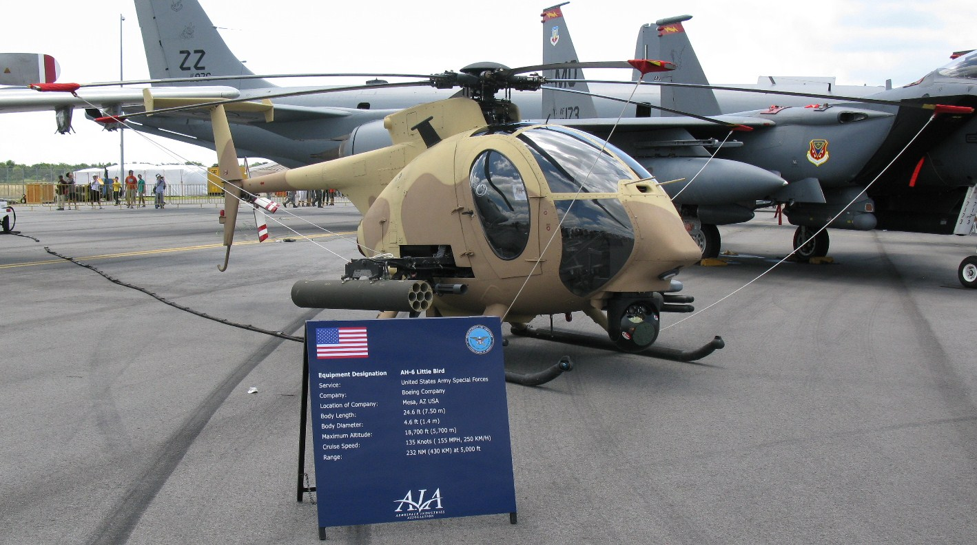 Singapore Air Show 2010: Fully laden Boeing AH-6 (side view)